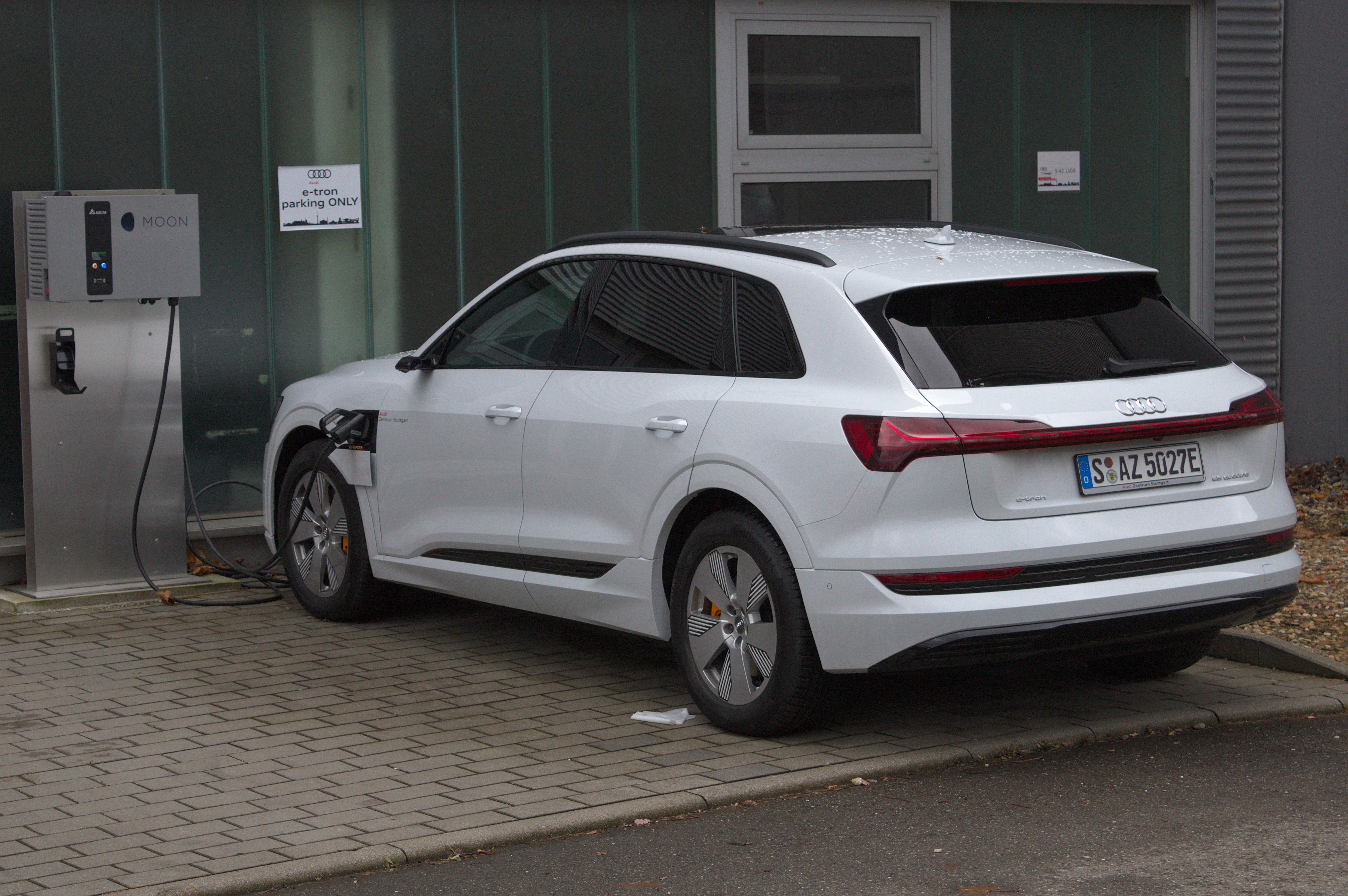 Audi_e-tron_55_quattro in Stuttgart-Vaihingen